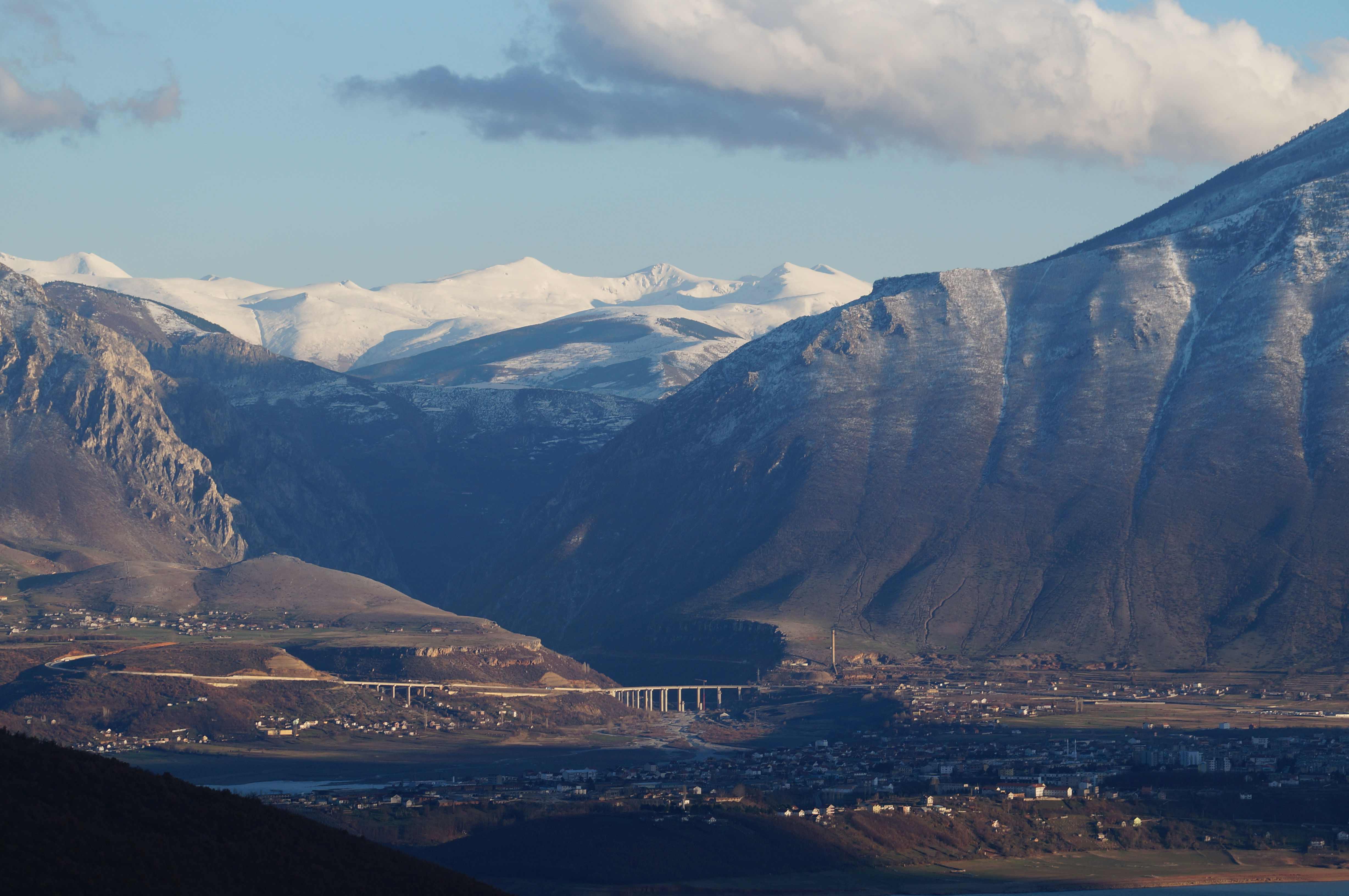 Highway bridges of Rruga e Kombit east of Kukës